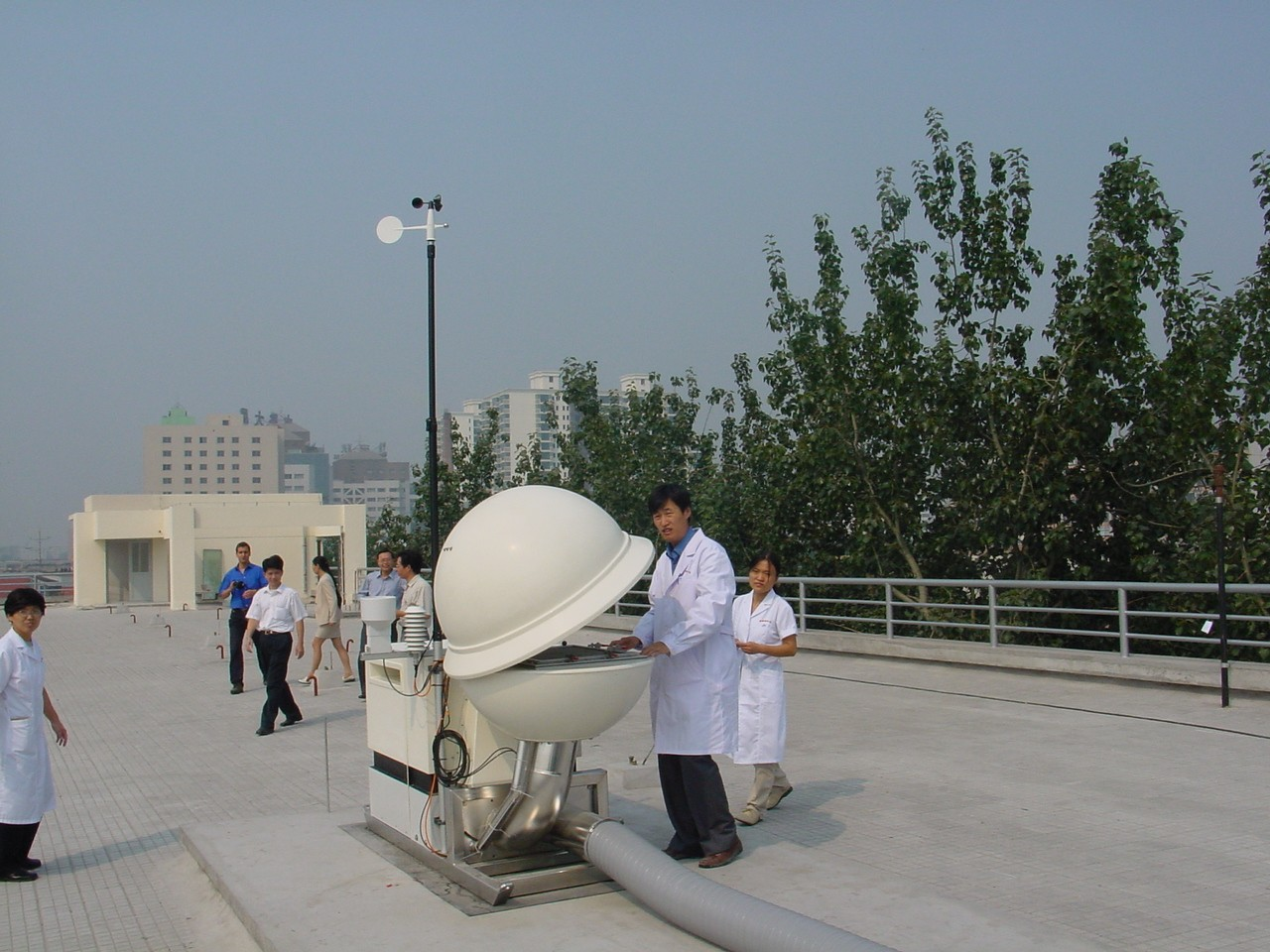 An expert examines radionuclide station RN20 in Beijing, China of the Comprehensive Nuclear Test Ban Treaty Organization Preparatory Commission's International Monitoring System. Copyright CTBTO Preparatory Commission